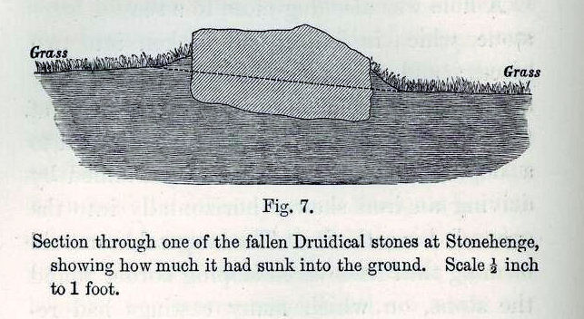 Section through one of the fallen Druidical stones at Stonehenge, showing how much it had sunk in the ground.